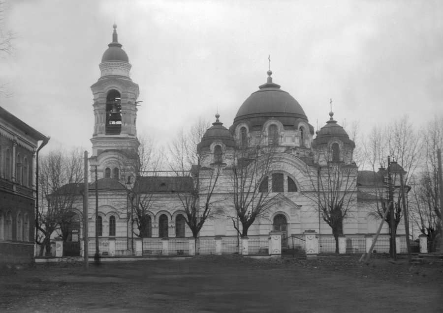 Church of the Entry of the Theotokos into the Temple, in Nizhny Tagil (Russia) destroyed in 1932